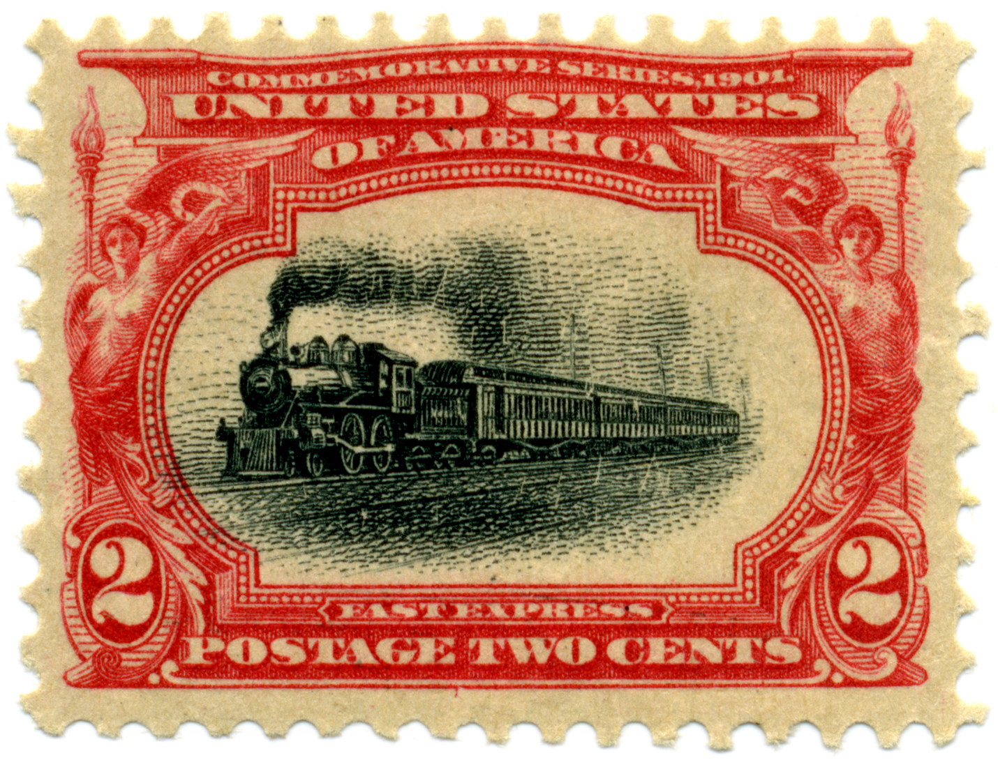 2-cent 1901 commemorative United States postage stamp, depicting "Fast Express". Part of the 1901 Pan-American Exposition commemorative series.